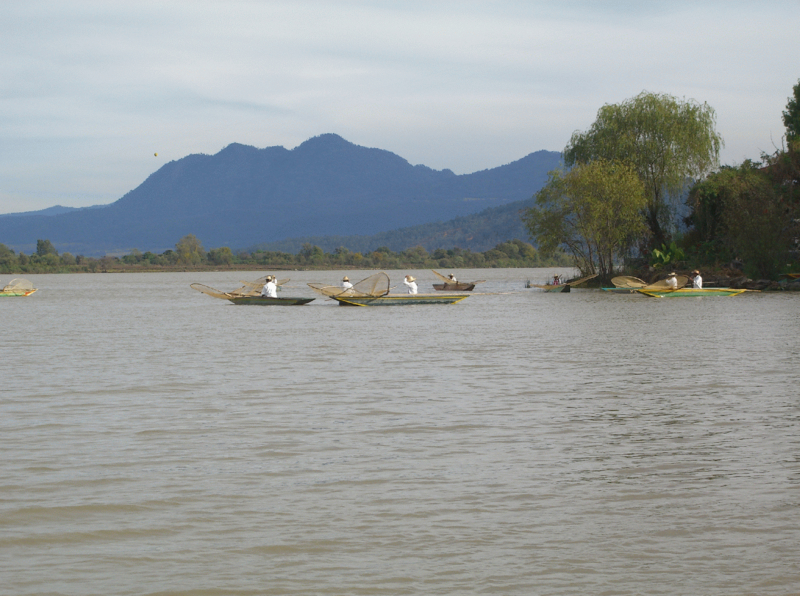 reconstitution of the traditional fishing on the lake Pátzcuaro (Michocán), Mexico